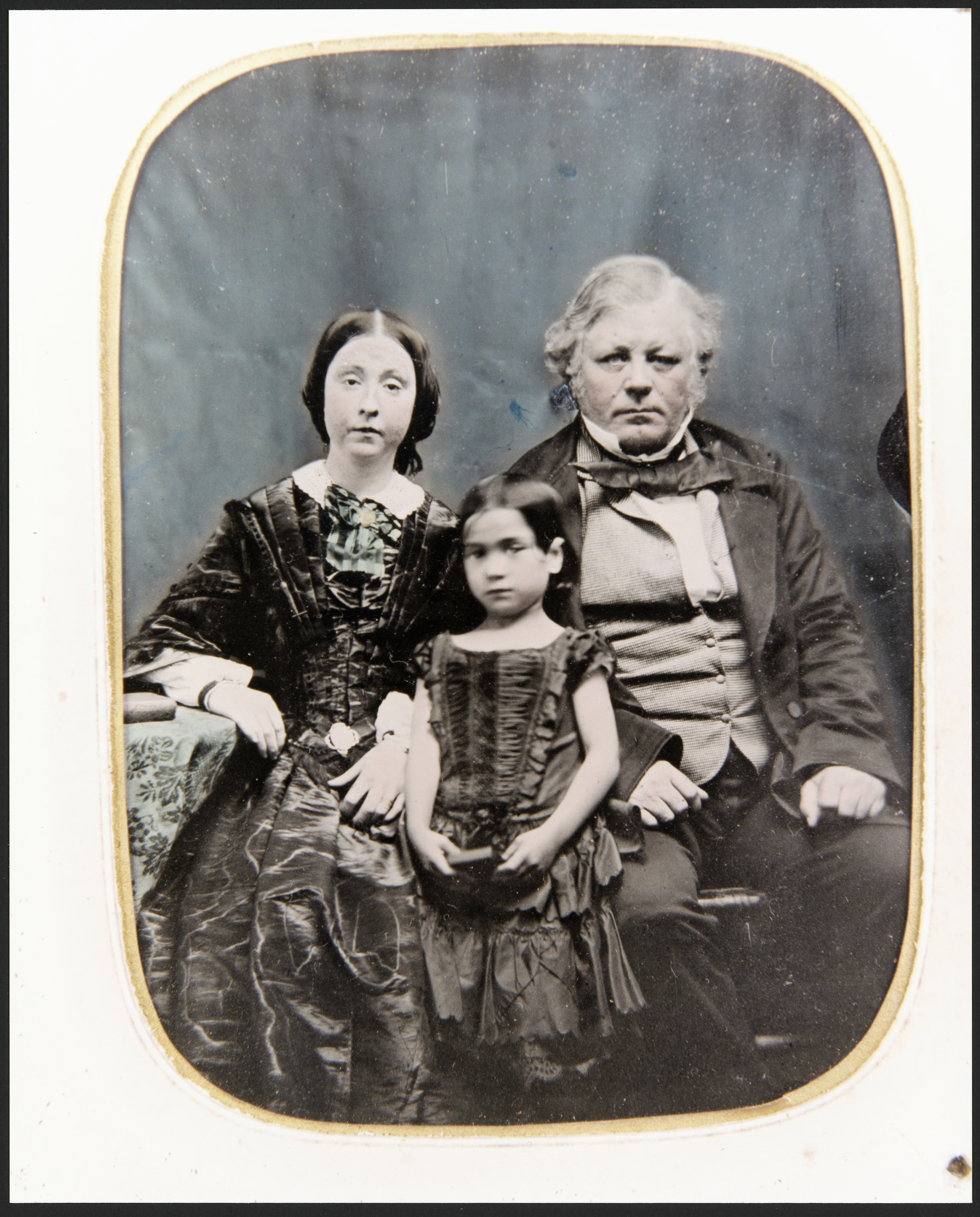 Copy of an ambrotype taken in Wellington in 1858, showing William Barnard Rhodes (1807-1878), his (first) wife Sarah King, and their adopted daughter, Maryann Rhodes.